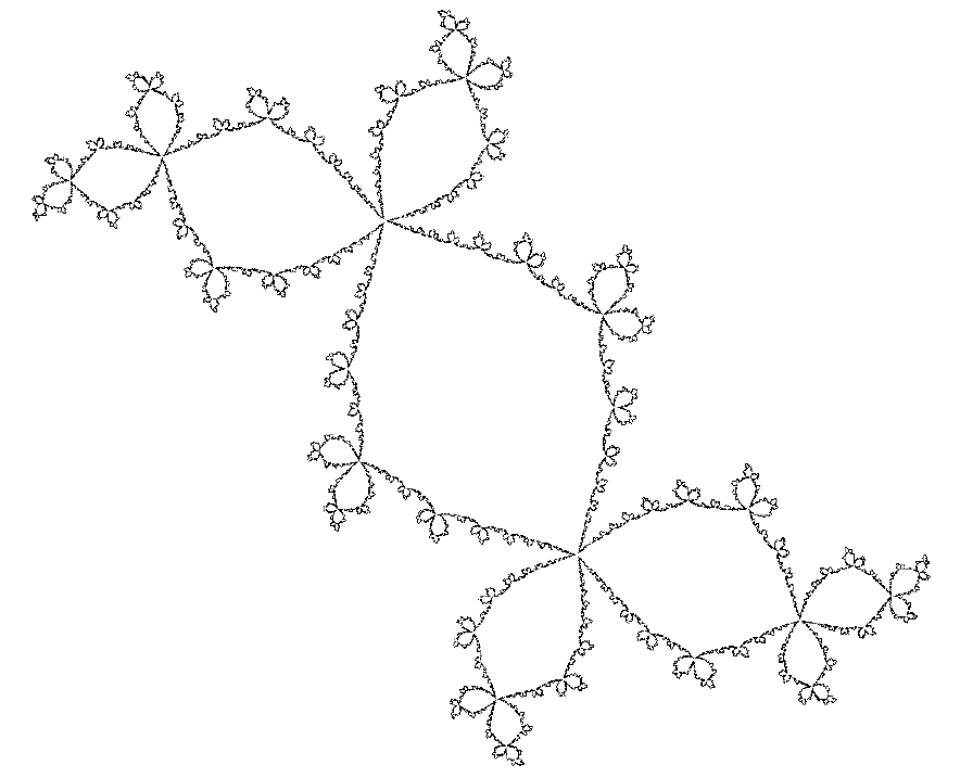 Julia set for c=-0,123+0.745i. First described by Adrien Douady.